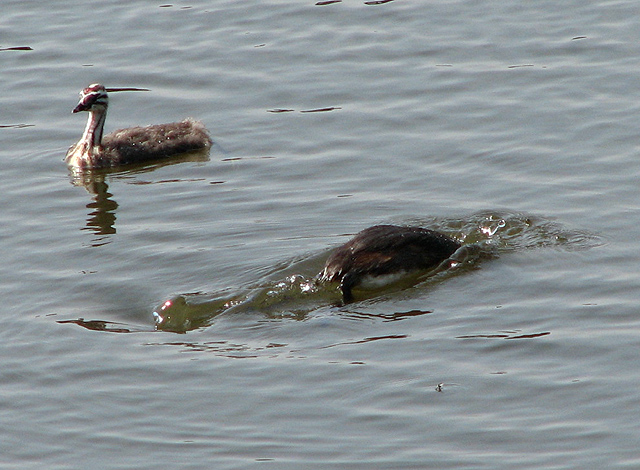 Great crested grebe doing a dive The adult animal was diving repeatedly whilst the chick stayed put, watching and waiting patiently for its parent to reappear. The great crested grebe (Podiceps cristatus) was hunted for its ornate head plumes, leading to near extinction, but there are now again about 9,400 breeding pairs and 19,140 wintering birds in the UK; they can be found at lowland lakes, gravel pits, reservoirs and rivers and, during the winter months, along the coast. Feeding on fish, which they hunt underwater, the birds prefer to dive, rather than fly, in order to escape, and very young grebes often ride on their parents' backs.